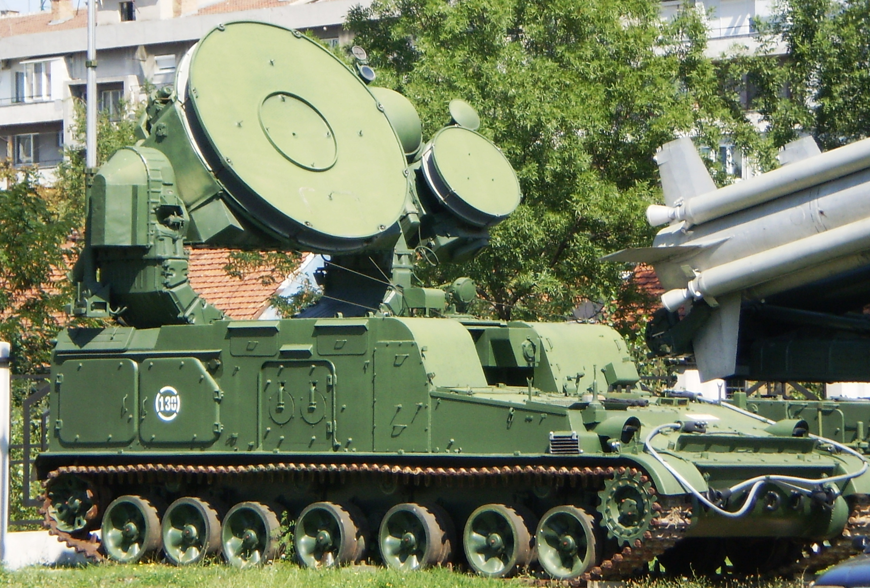 A long-range "Pat Hand" H-band continuous wave fire control and guidance radar (range 128 km) of the SA-4 system.